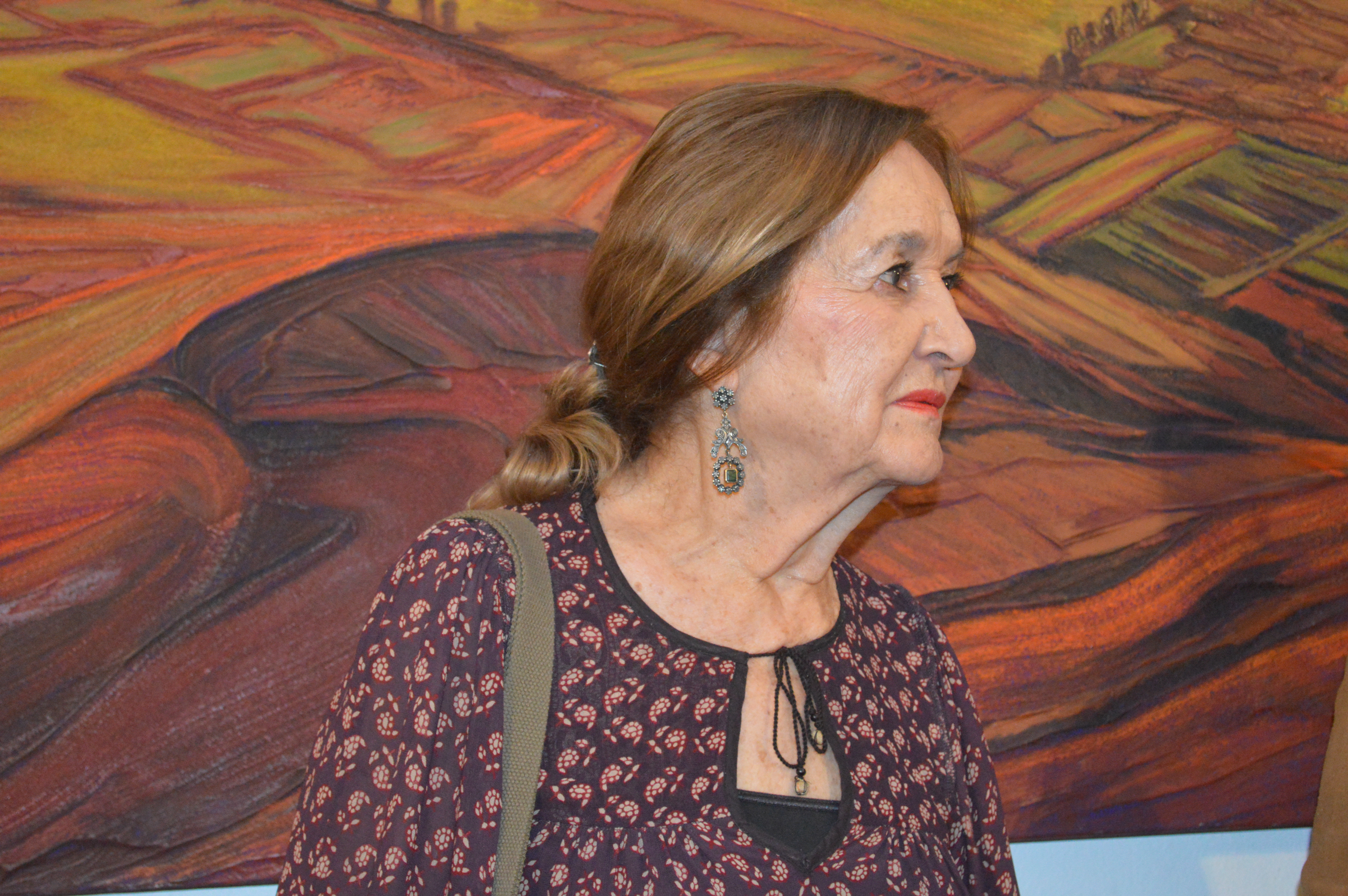 Rina Lazo at the opening of an exhibition of work by Angelica Carrasco, John McGee and Juan Manuel Salazar at the Salon de la Plastica Mexicana in Mexico City